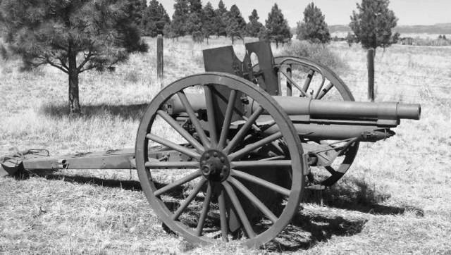 Photo of M1905 Howitzer used by Allied Forces in World War I